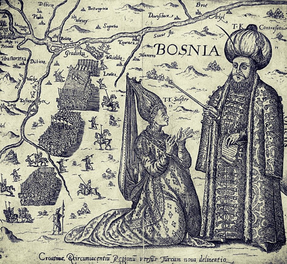 Murat 1574 - 1595. Cornelis de Jode, “Croatia & circumiacentium Regionum versus Turcam nova delineatio,” insets, Antwerp, [c. 1594].